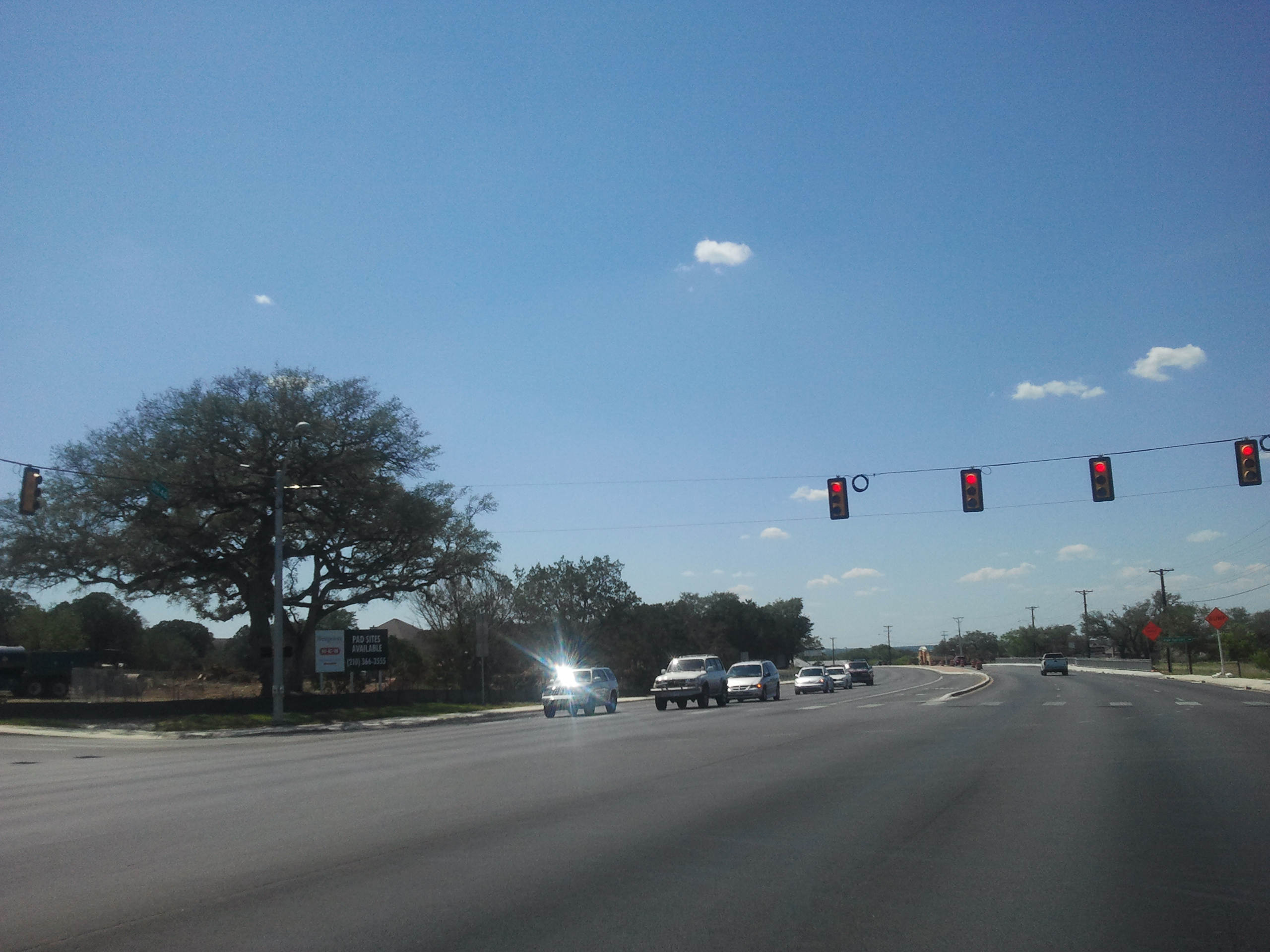 A photo of the intersection of Texas State Highway 46 with Independence Drive in west New Braunfels, Texas.